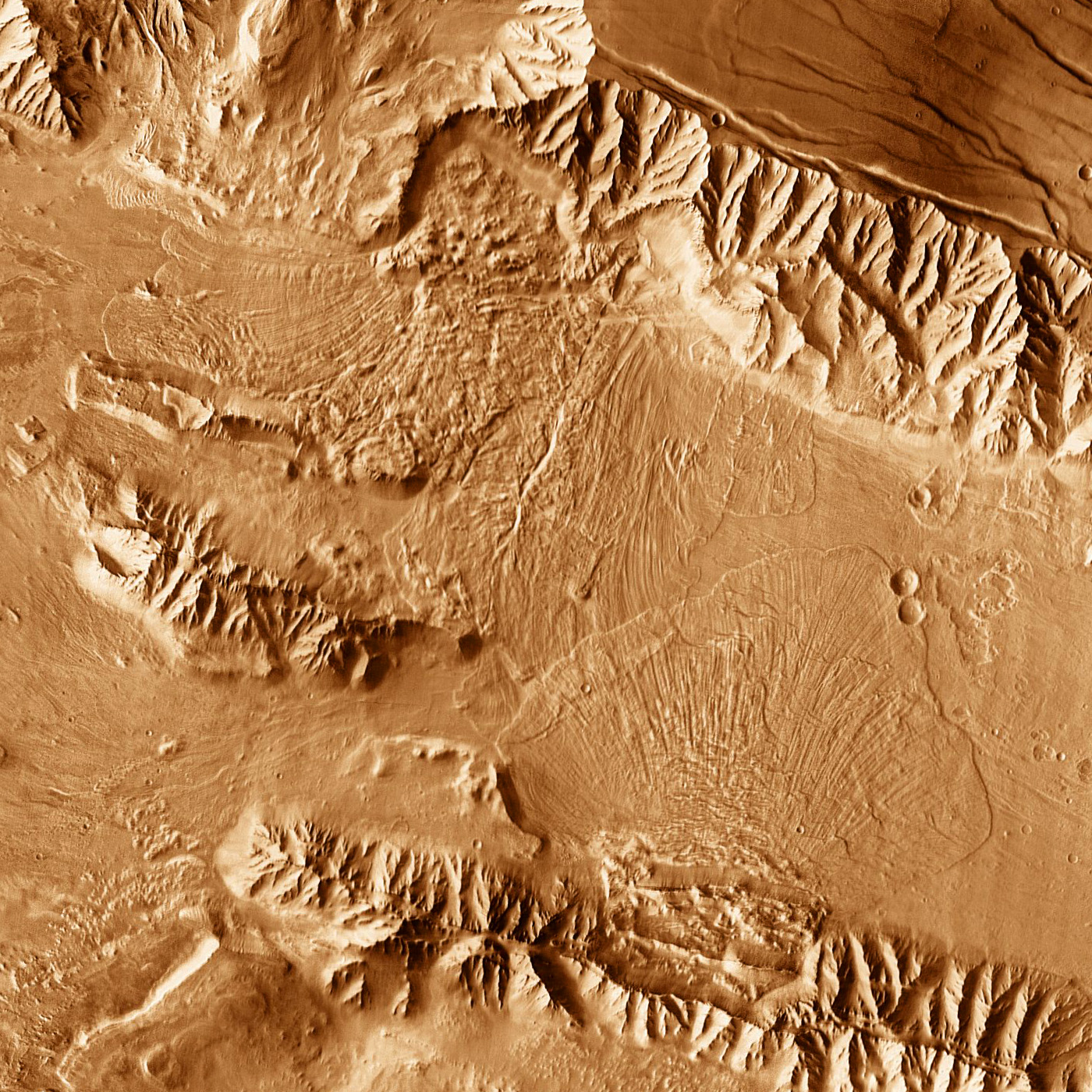 Deposits from landslides moving in opposite directions (Ophir Labes at upper left, Coprates Labes at lower right) meet on the canyon floor near the junction of Melas and Coprates chasmata, parts of the enormous Valles Marineris canyon system on Mars. This image was obtained by cropping a massive 23,711 × 11,856 pixel mosaic of NASA images, and adjusting in hue and saturation. The original caption for the mosaic reads in part as follows: This mosaic image of Valles Marineris - colored to resemble the martian surface - comes from the Thermal Emission Imaging System (THEMIS), a visible-light and infrared-sensing camera on NASA's Mars Odyssey orbiter. Mars Odyssey was built by Lockheed Martin and the mission is operated by the Jet Propulsion Laboratory. Built from more than 500 daytime infrared photos, the mosaic shows the whole valley in more detail than any previous composite photo. Despite the valley's huge extent - including its western extension through Noctis Labyrinthus, it reaches some 3,000 kilometers (2,000 miles) long - the smallest details visible in the image are about the size of a football field: 100 meters (328 feet).